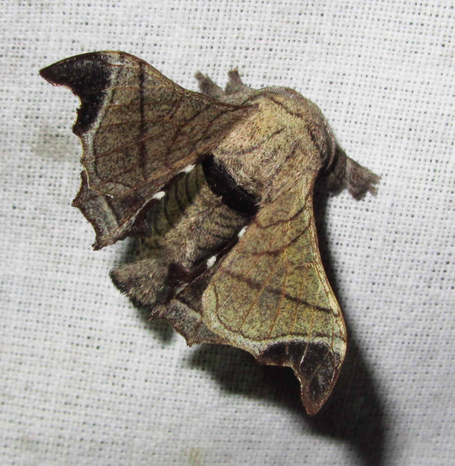 Bombyx huttoni. Khellong, Eaglenest, West Kameng, Arunachal Pradesh, India, 25 April 2012